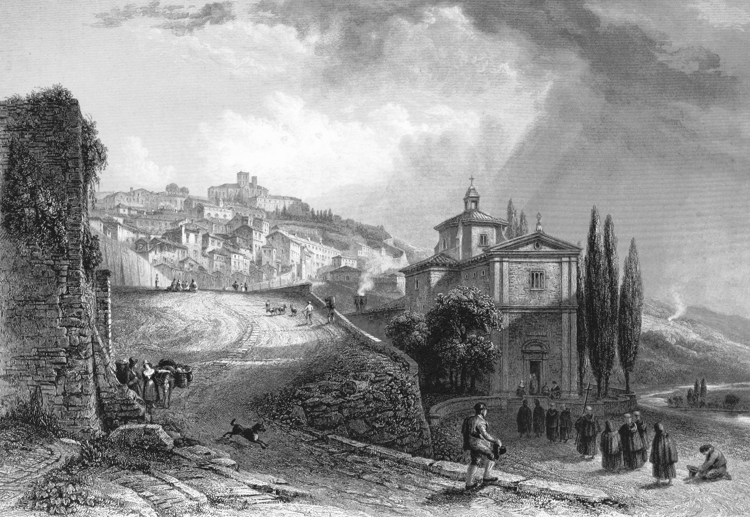 Image taken from: Title: "Italy, illustrated and described, in a series of views from drawings by Stanfield, R.A., Roberts, R.A., Harding, Prout, Leitch, Brockedon, Barnard, &c. &c. With descriptions of the scenes. And an introductory essay. on the political, religious, and moral state of Italy. By Camillo Mapei [translated by David Dundas Scott] ... And a sketch of the history and progress of Italy during the last fifteen years, 1847-62, in continuation of Dr. Mapei's essay. By the Rev. Gavin Carlyle", "Appendix. Travels, etc." Contributor: BROCKEDON, William. Contributor: SCOTT, David Dundas. Contributor: Stanfield, Clarkson Author: Italy Shelfmark: "British Library HMNTS 10151.f.6." Page: 315 Place of Publishing: London Date of Publishing: 1864 Publisher: Blackie & Son Issuance: monographic Identifier: 001828371 Rotated by Mac9